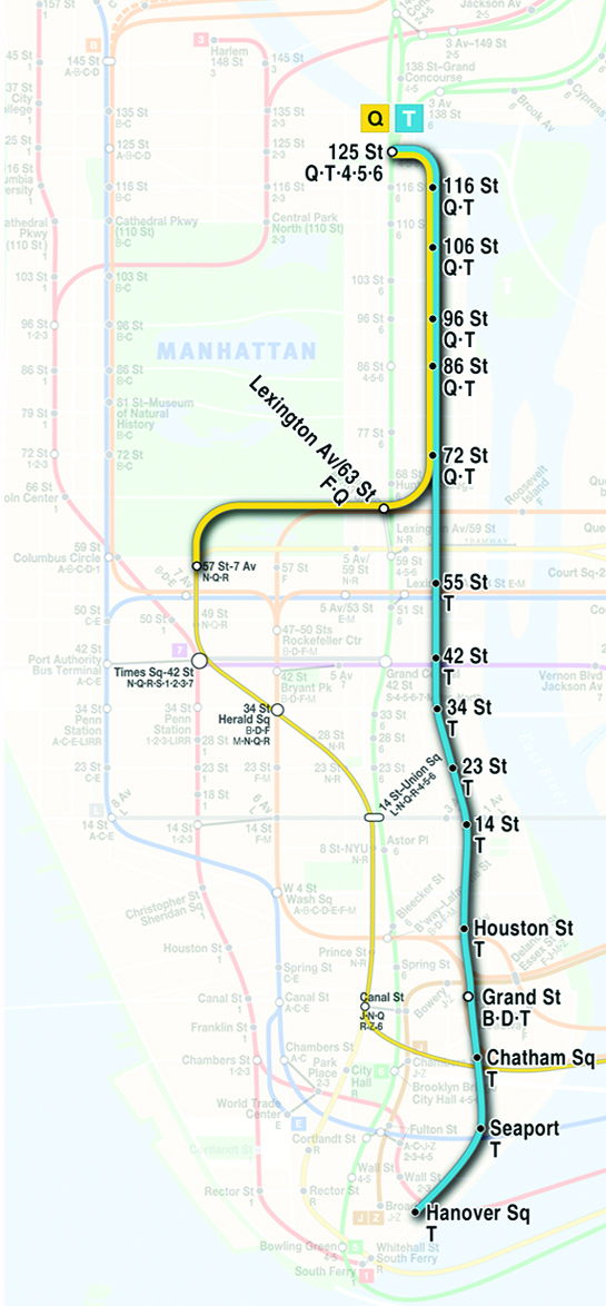 This map shows the full length Second Avenue Subway. Phase 1, with new stations at 72nd Street, 86th Street and 96th Street serving the Q train, opened for service on January 1, 2017.